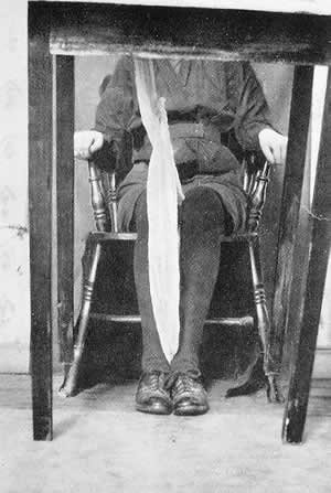 Photograph showing the fake ectoplasm of the medium Kathleen Goligher.